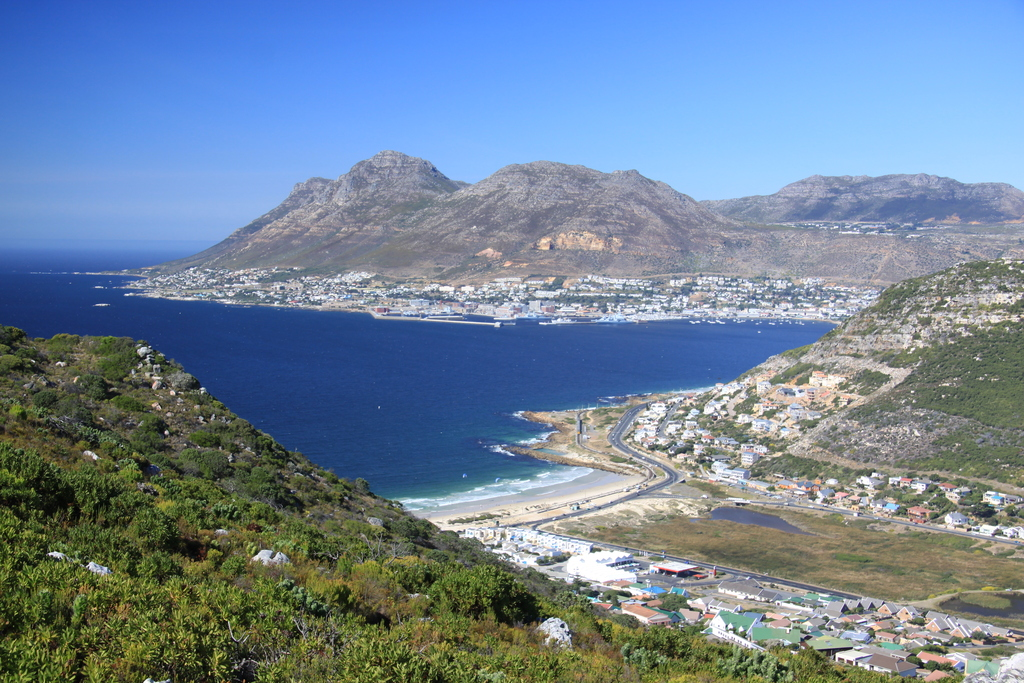 On Good Friday, 2009, we went for a hike up Elsie's Peak